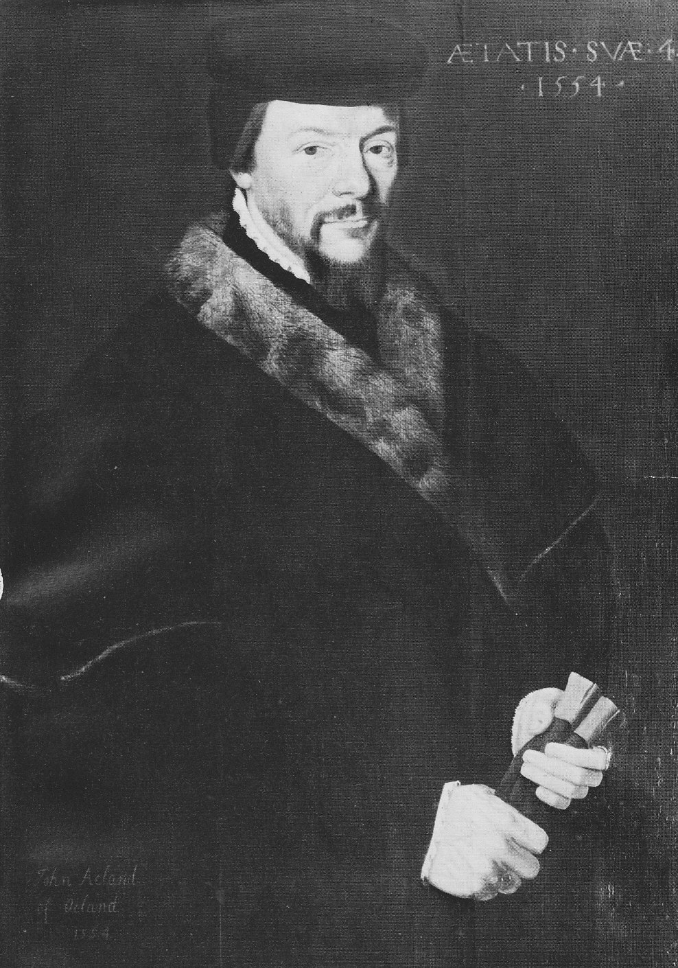 John Acland (d.1553) of Acland, Landkey, North Devon. 1554 portrait by unknown artist. Collection of Killerton House, Devon, property of National Trust